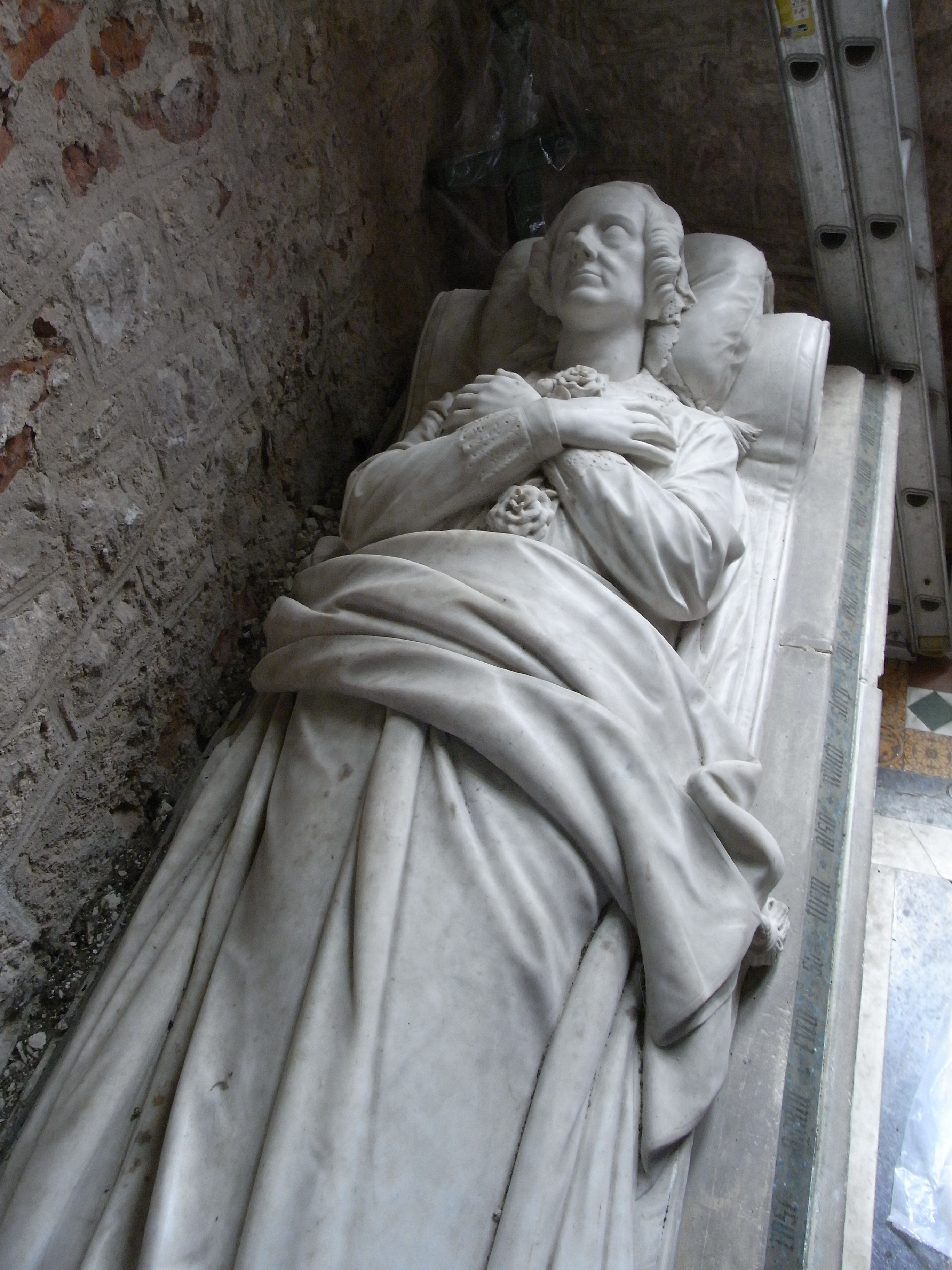 Effigy of Elizabeth, Countess of Devon (d.27 Jan 1867), wife of William Courtenay, 11th Earl of Devon and daughter of Hugh Fortescue, 1st Earl Fortescue. Tomb-chest with full-length recumbent alabaster effigy by Edward Bowring Stephens (1815-1882) in St Clement's Church, Powderham, against the east wall of the south transept, with a plaster-cast in the chapel attached to Powderham Castle